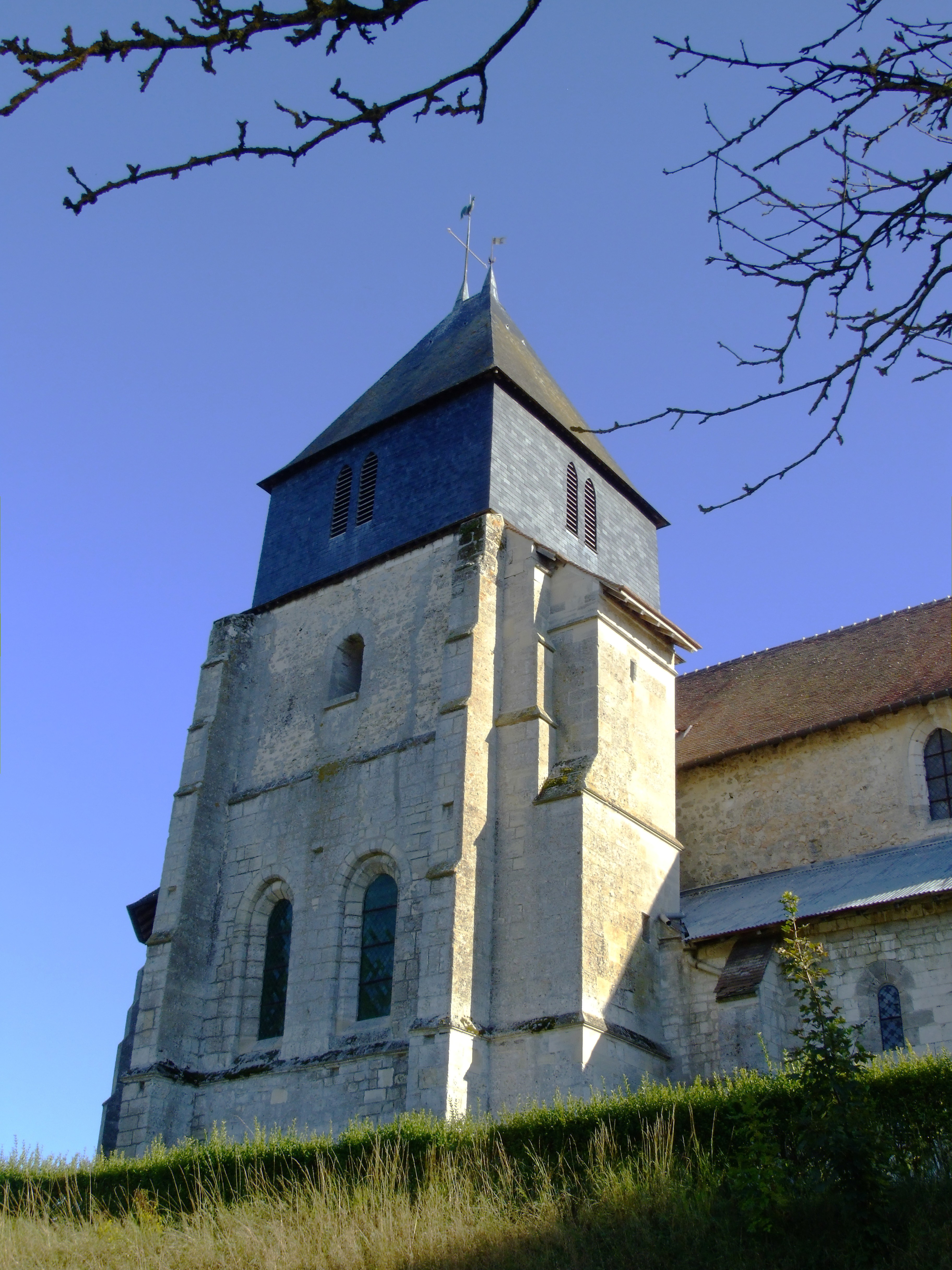 Soudron (Marne, France): Tower of church St-Pierre-St-Paul